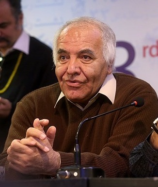 نشست خبری فیلم سینمایی ارغوان